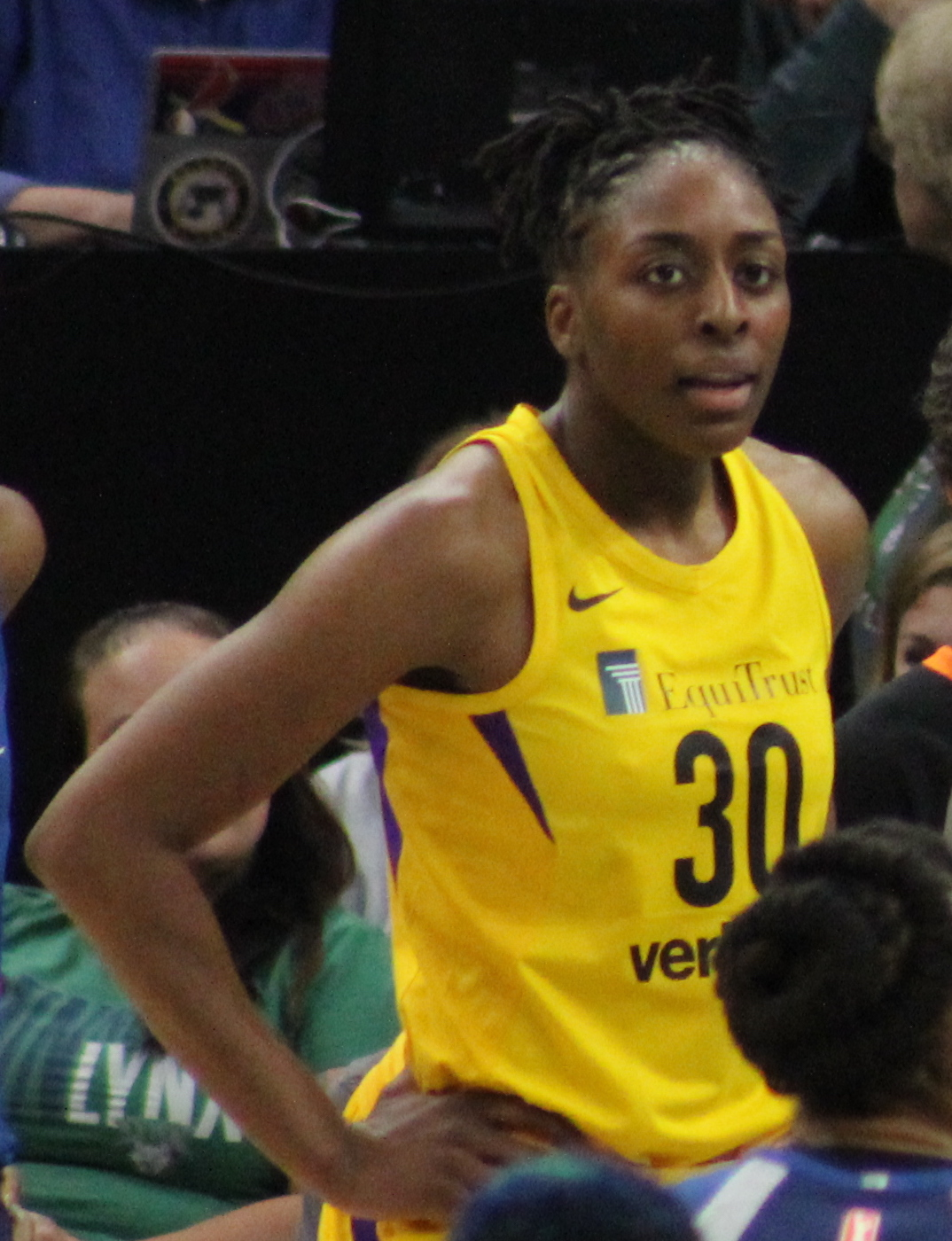 Nneka Ogwumike of the Los Angeles Sparks in 2018